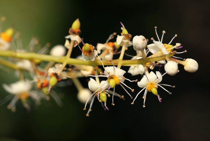 Irvingia smithii Hook.f. - riverine tree on the Aruwimi River in Central DR Congo